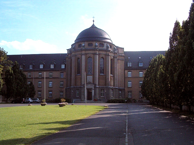 Monastery of Divine Word Missionaries in Sankt Augustin, Germany.